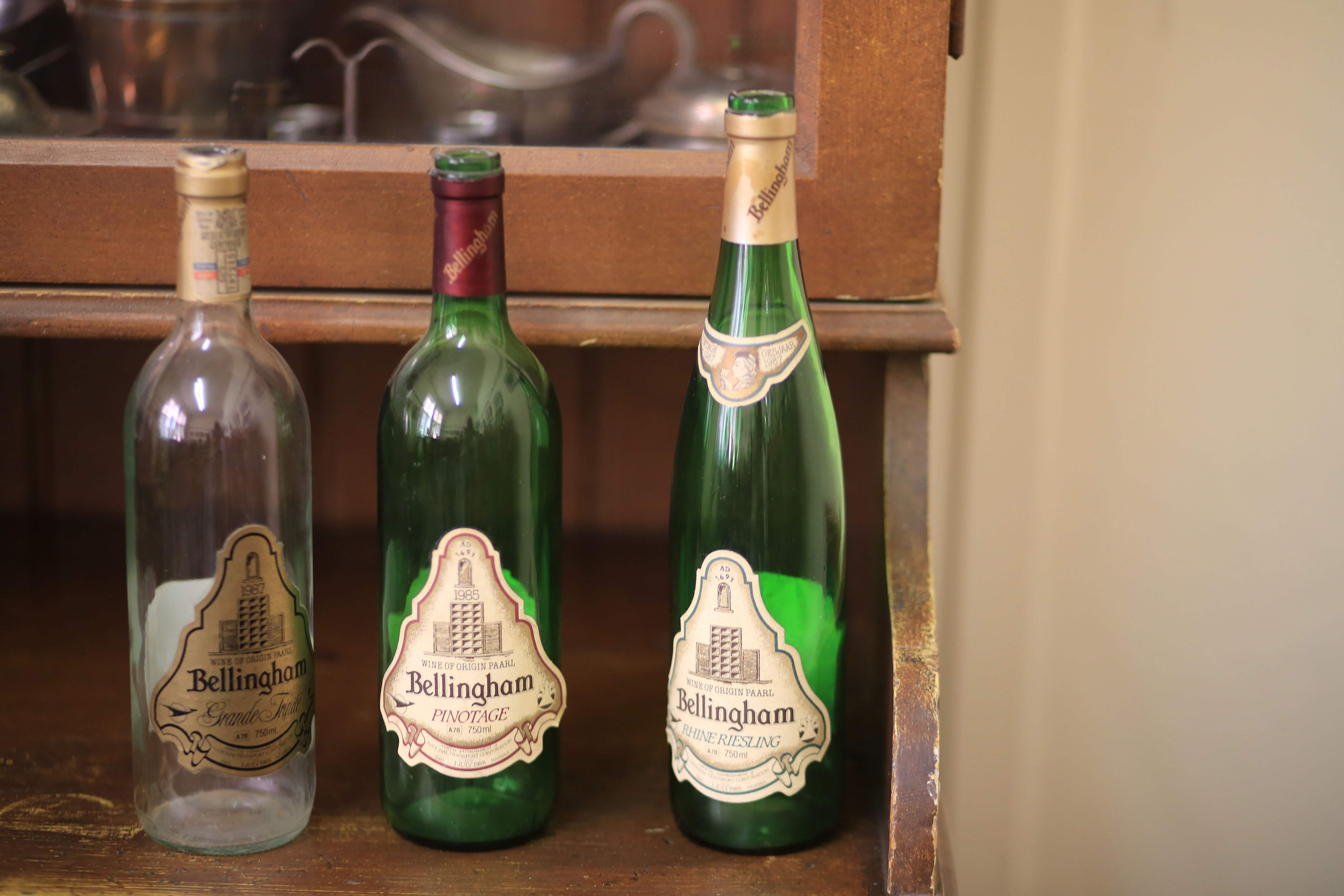 Windhoek train station